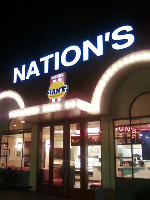 The facade of a Nation's Giant Hamburgers restaurant in El Cerrito, California